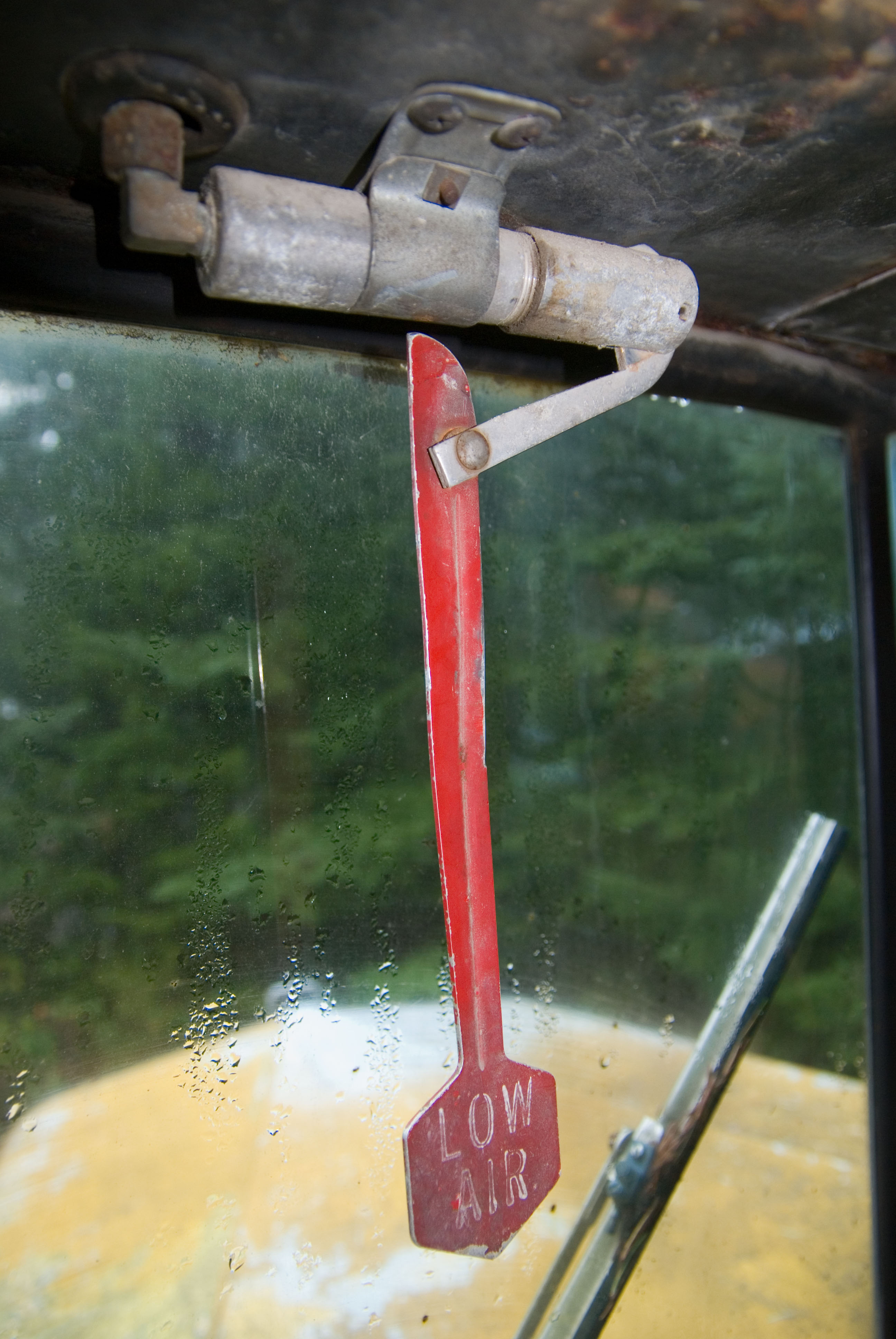 Wig Wag used to warn truck driver of low airpressure.